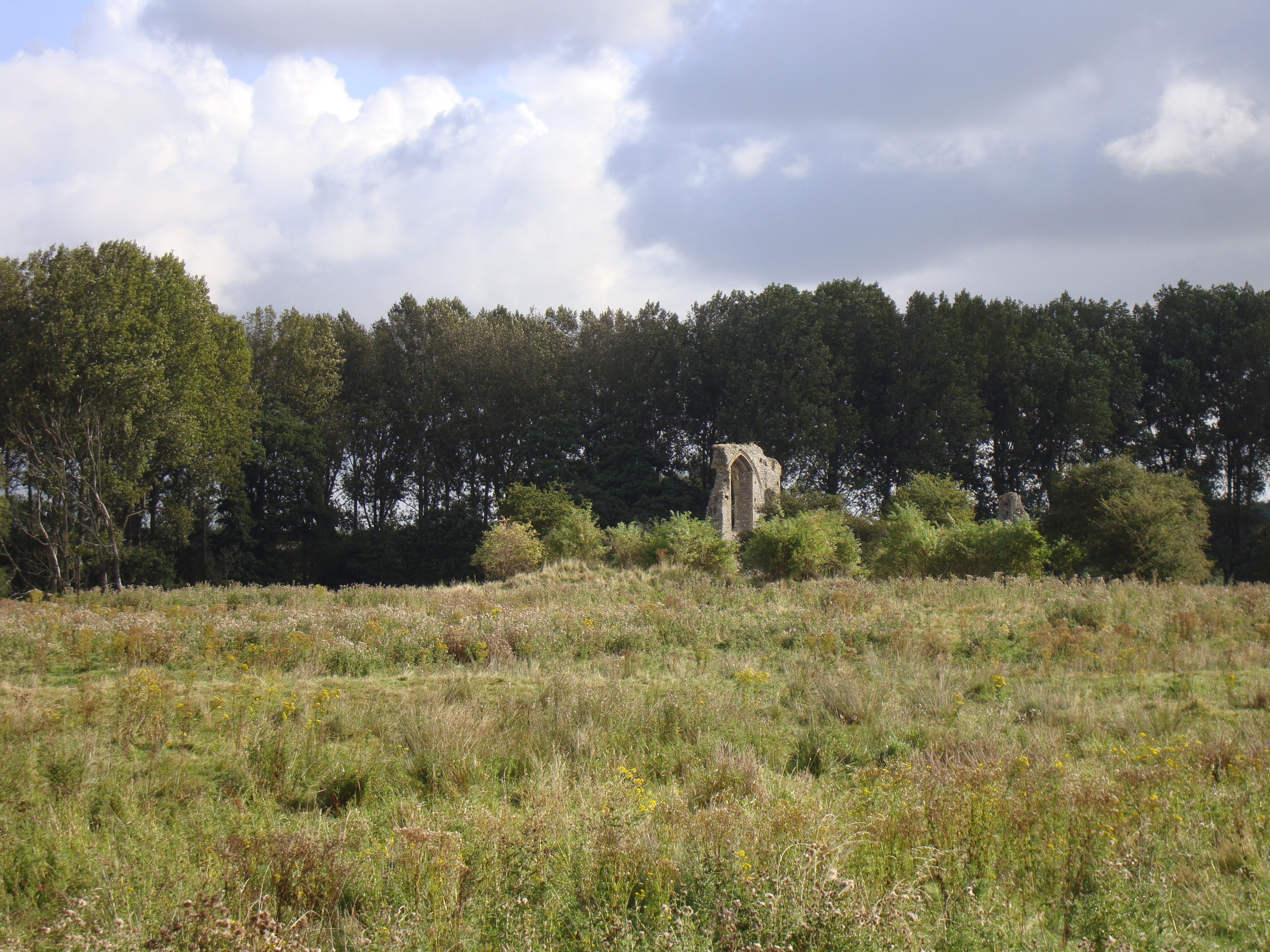 Photograph of the remains of Coxford Priory, Norfolk, England